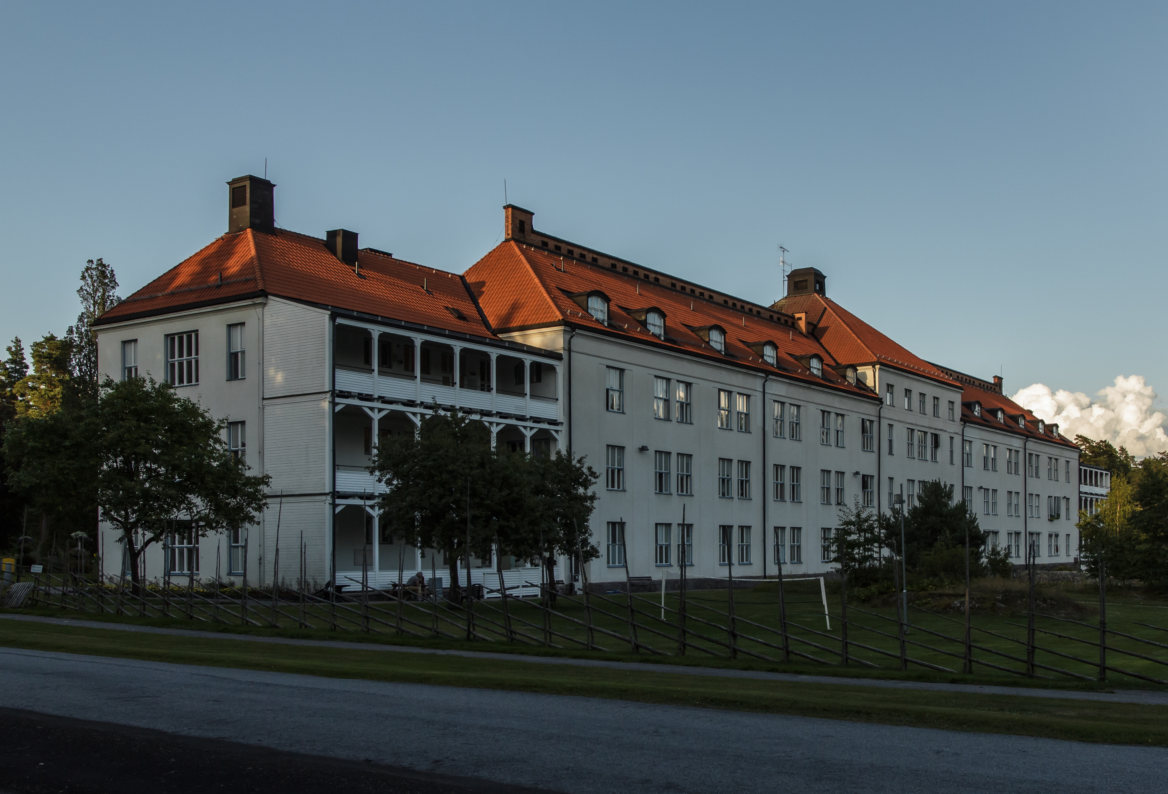 Open prison Anstalten Kolmården, originally sanatorium Kolmårdssanatoriet, built 1918. Architect: Ernst W E Stenhammar.